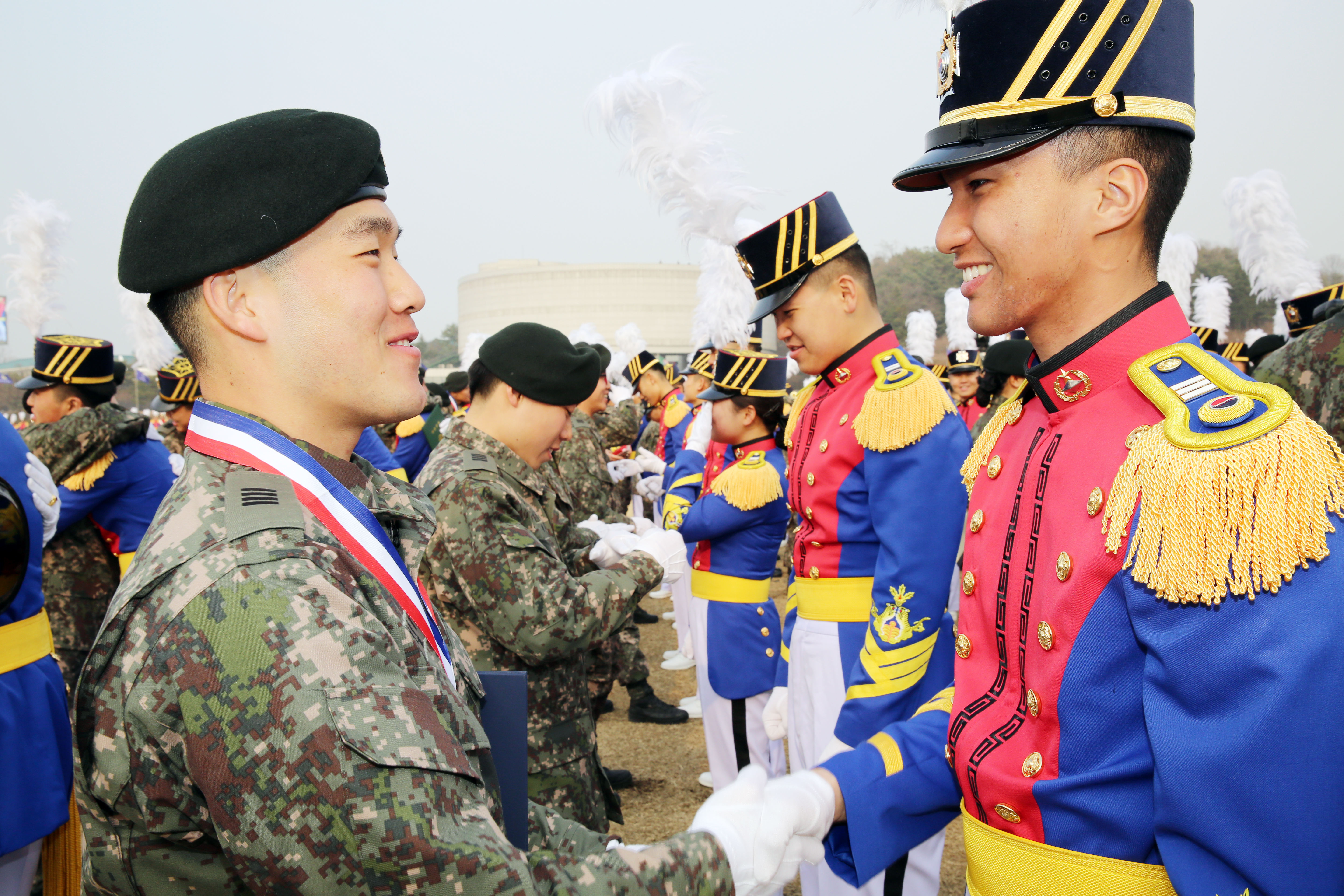 14년 2월 27일 실시된 육군사관학교 졸업식(Graduation Ceremony_Korea Military Academy)